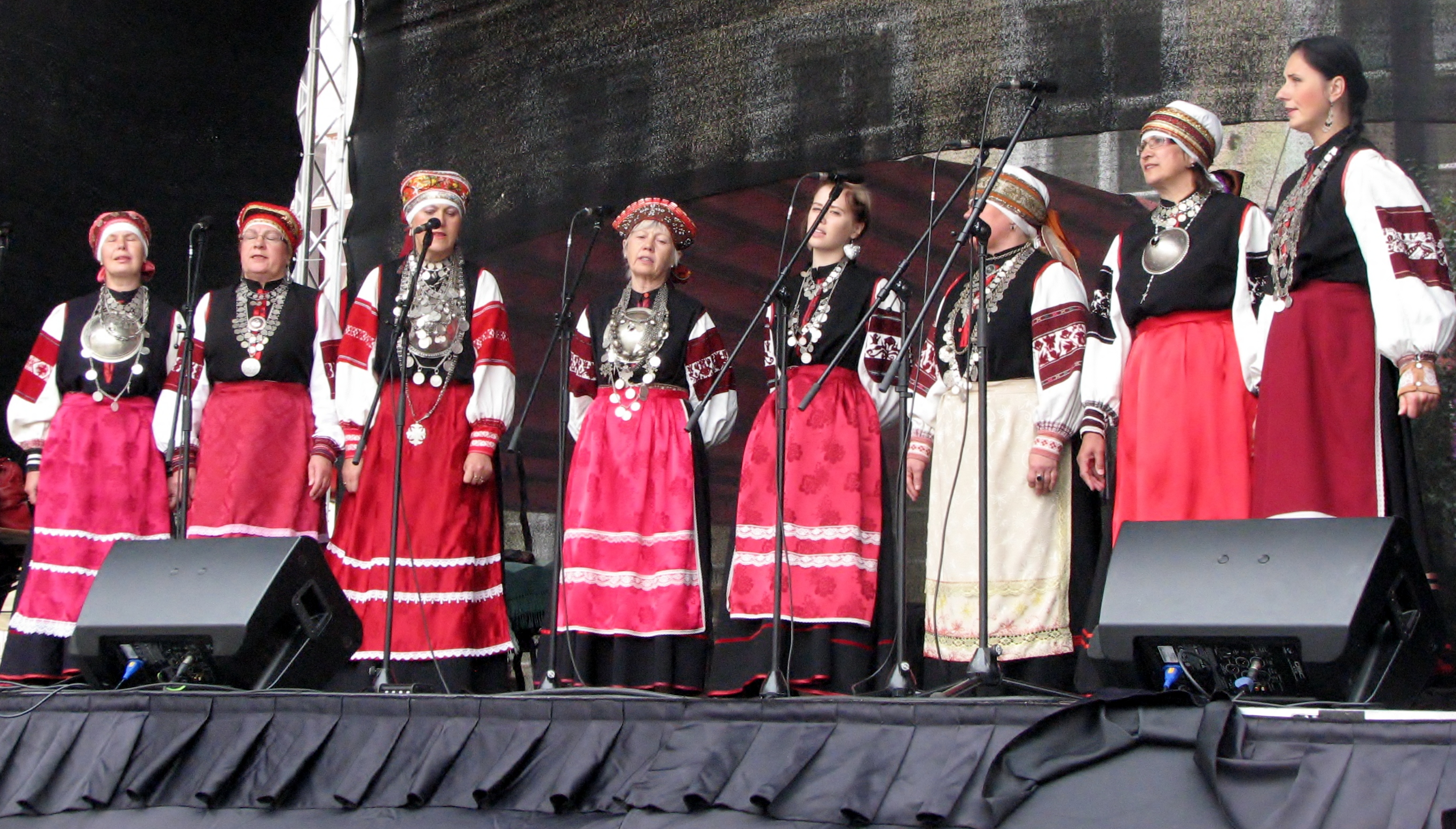 Siidisõsarõ performing at "Open the stage, Tallinn!"